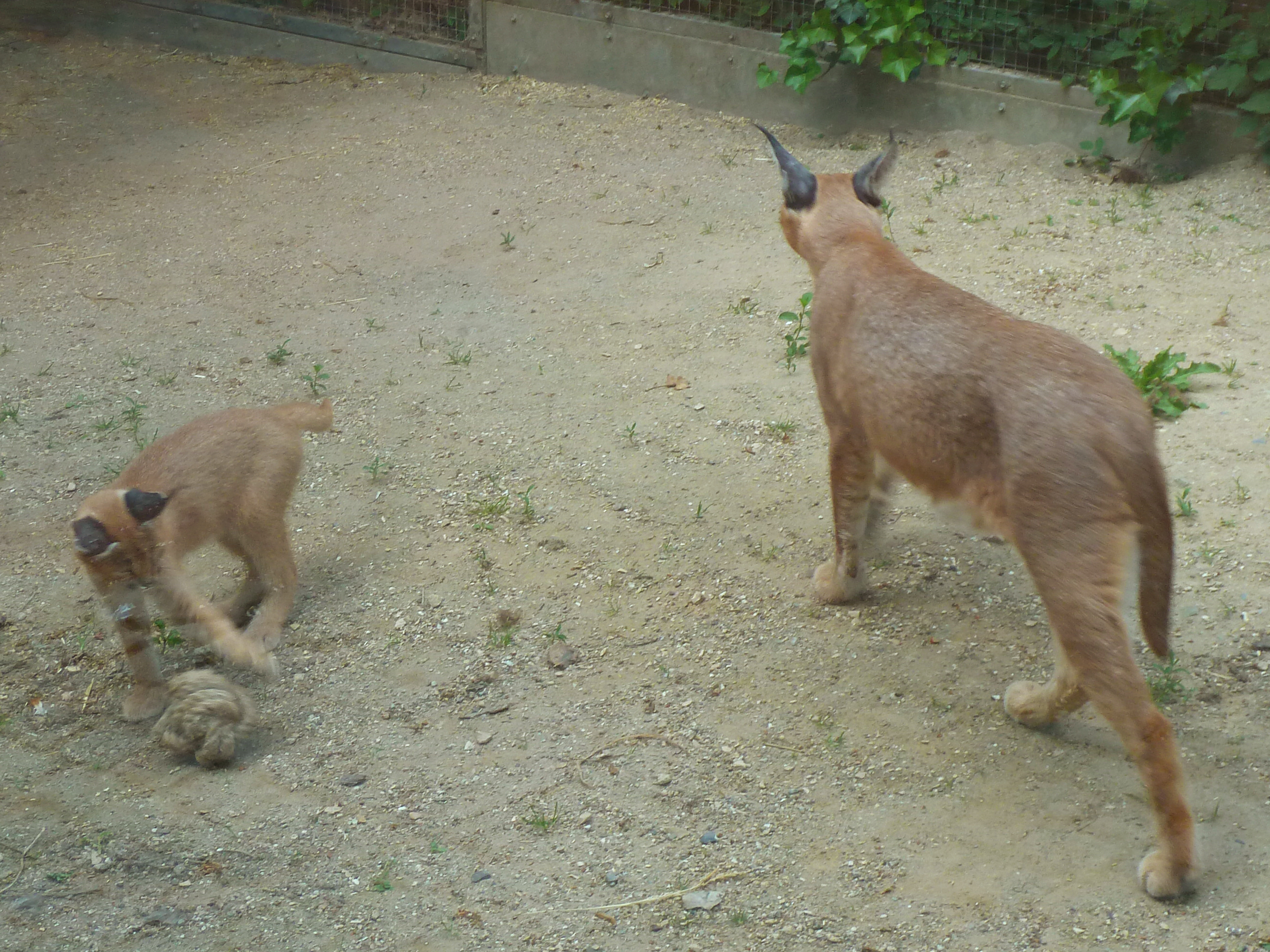 Caracal kitten and mother in Copenhagen Zoo. Find more free photos on